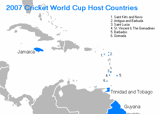 2007 Cricket World Cup host countries.